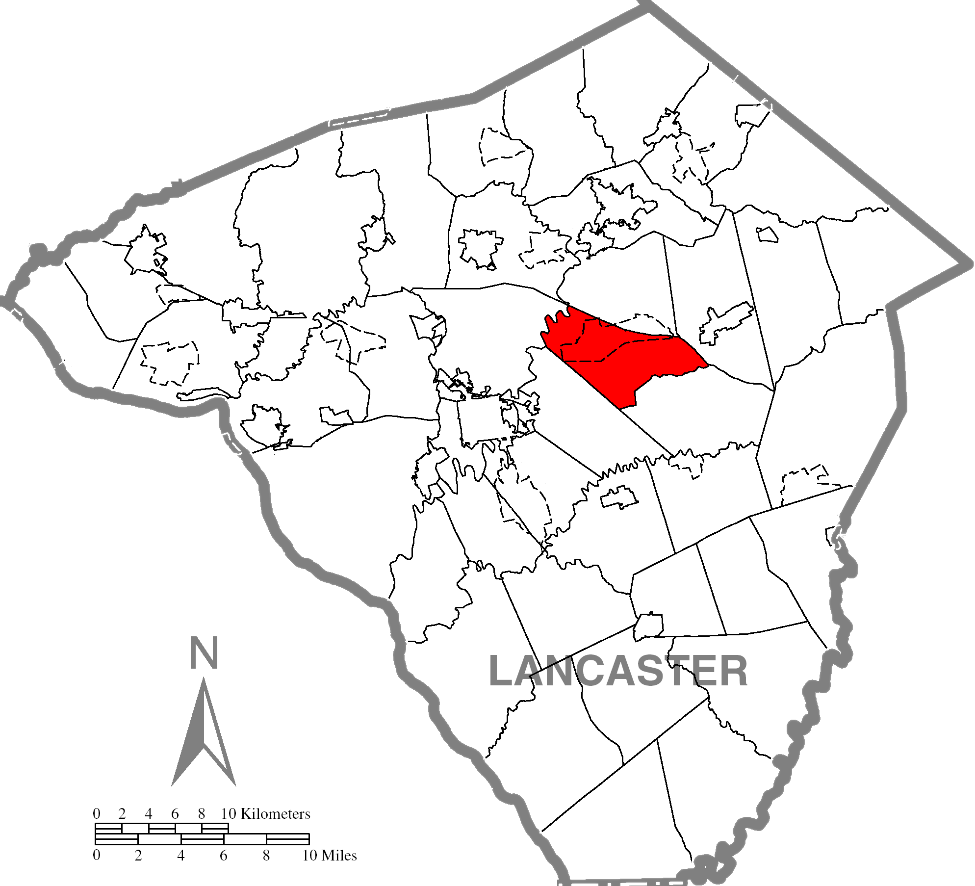 Highlighted Lancaster County map of Upper Leacock Township.